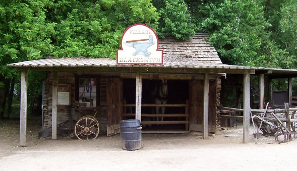 Build in Cedar Fort, Utah in 1858, the Pioneer Village Blacksmith Shop served the needs of Johnston's Army at Camp Floyd. The original tools are still in the building.